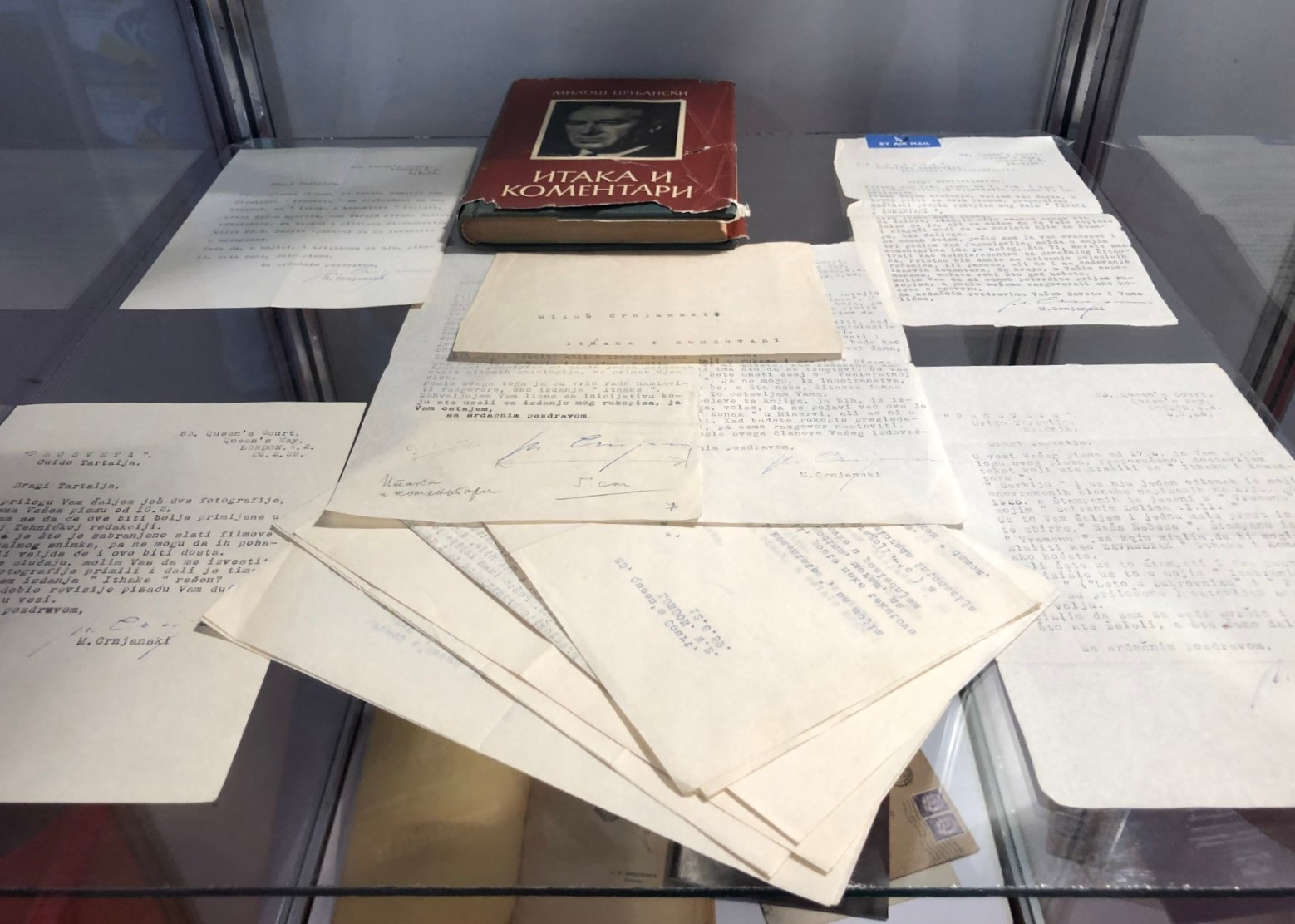 Letters from Miloš Crnjanski to Gvido Tartalja. They can be found in the Society for Culture, Art and International Cooperation Adligat in Belgrade, Serbia. Српски (ћирилица): Писма Милоша Црњанског Гвиди Тартаљи. Налазе се у Удружењу за културу, уметност и међународну сарадњу „Адлигат” у Београду.